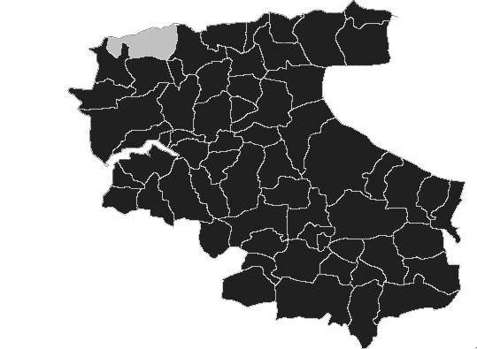 A trace of North Devon distrcits with Ilfracombe highlighted.